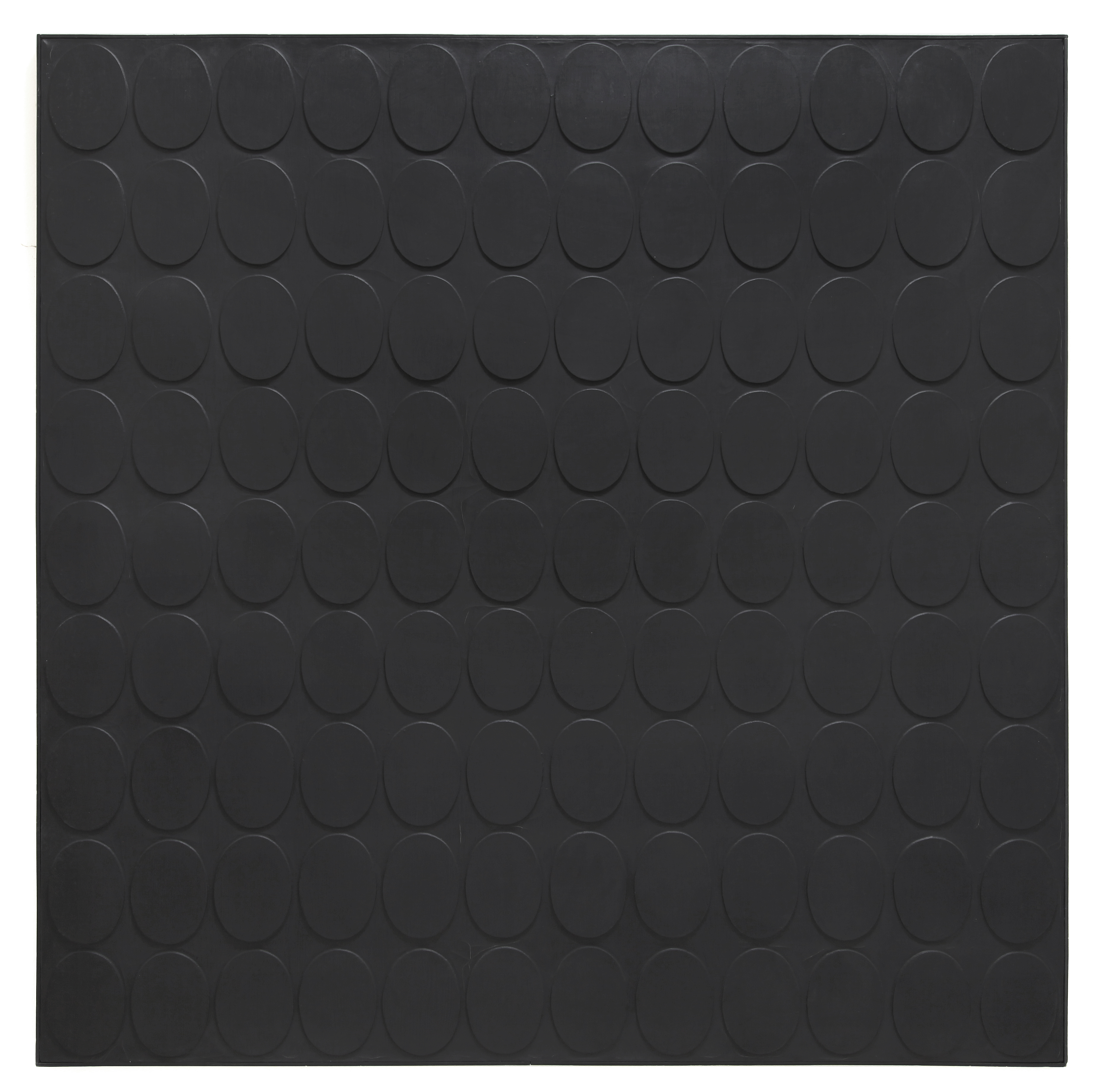 Turi Simeti. 108 ovali neri, 1968. Collage on canvas, 150x150 cm